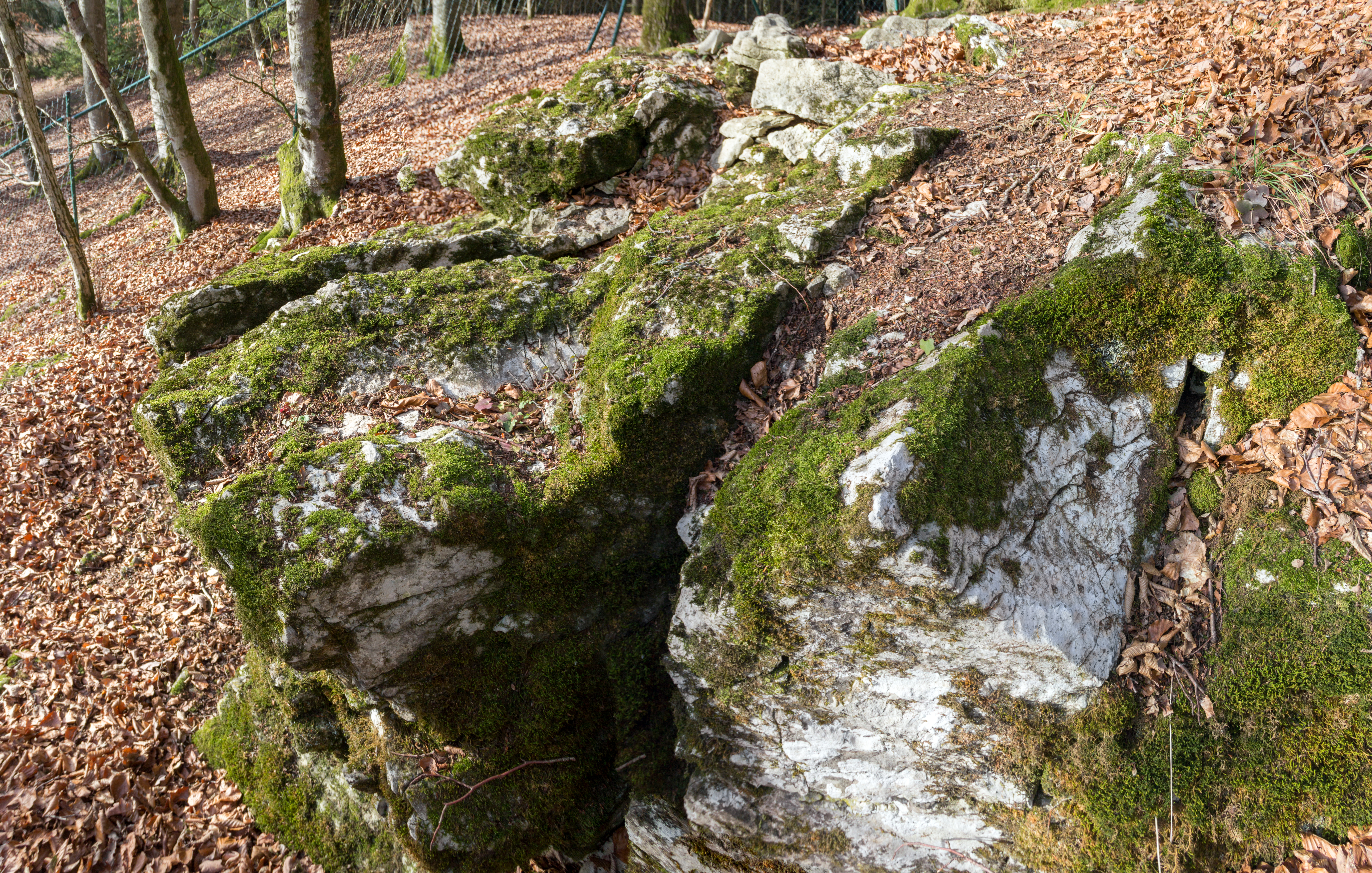 Blutrinne, Hechlingen am See, Kulturdenkmal